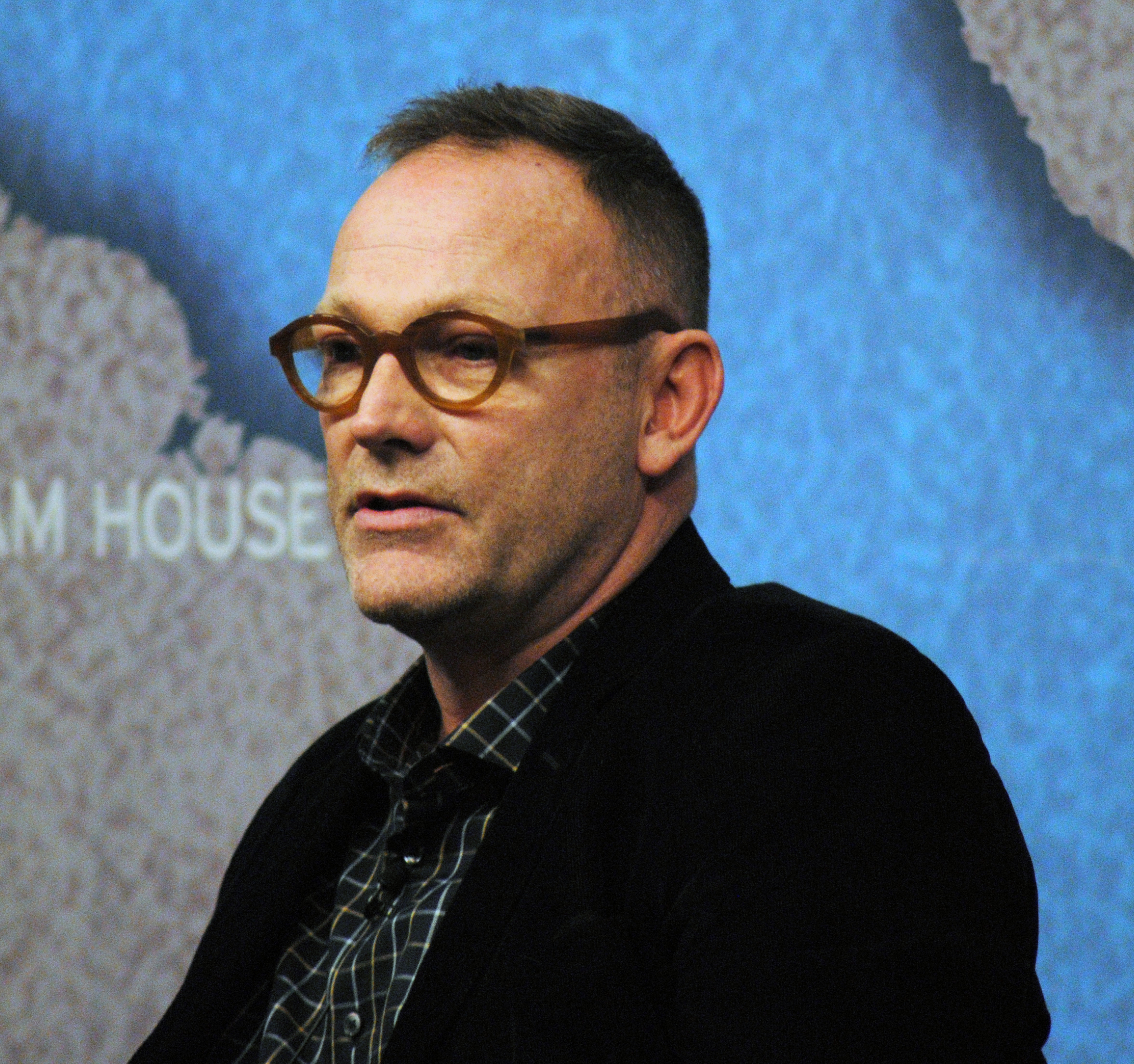 Ben Emmerson QC, UN Special Rapporteur on Counterterrorism and Human Rights, at the Chatham House event "Targeted Killings and Drones: A Global Battlefield", 28 November 2013